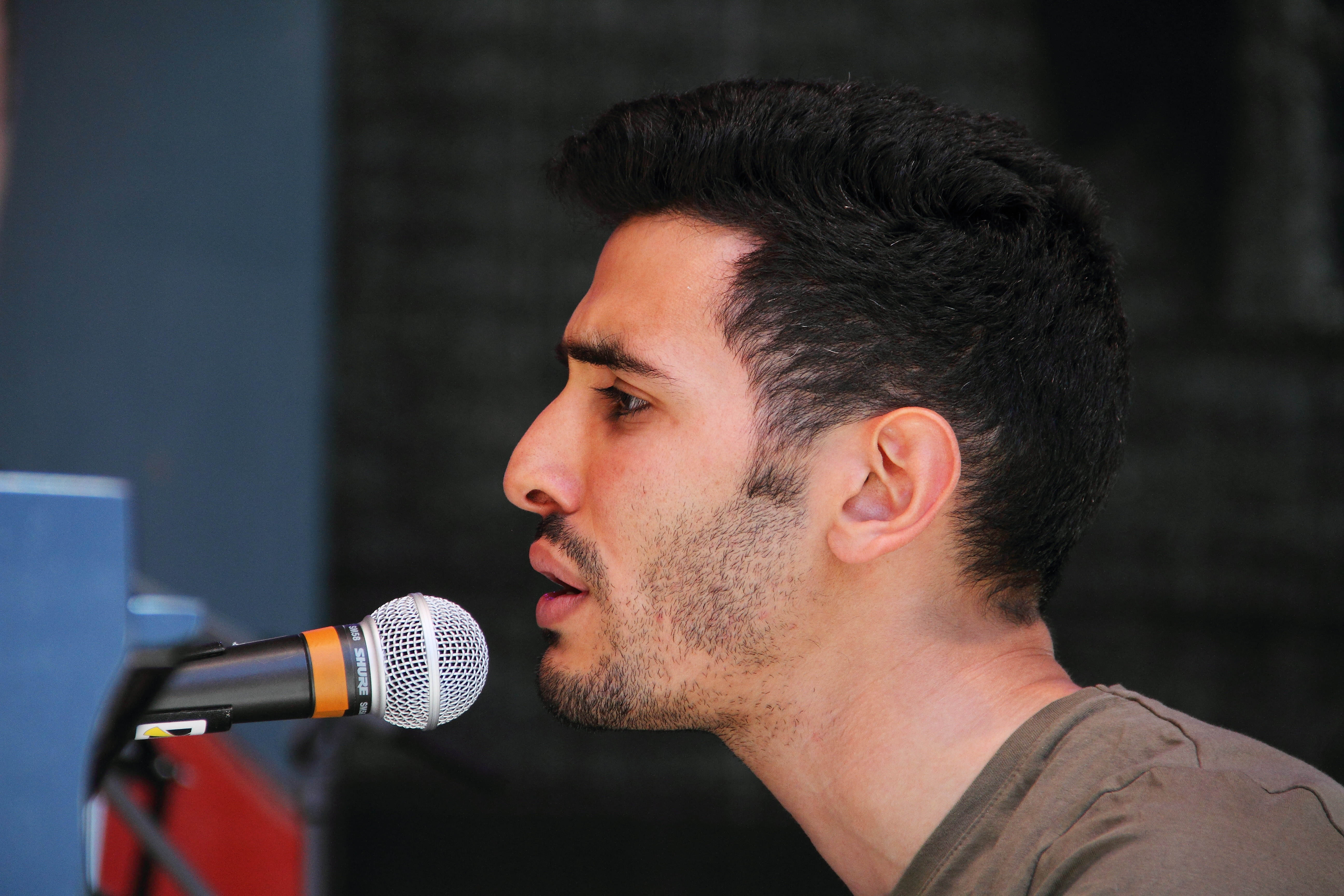 Ahmad-Knecht-Trio at Rudolstadt-Festival 2018.